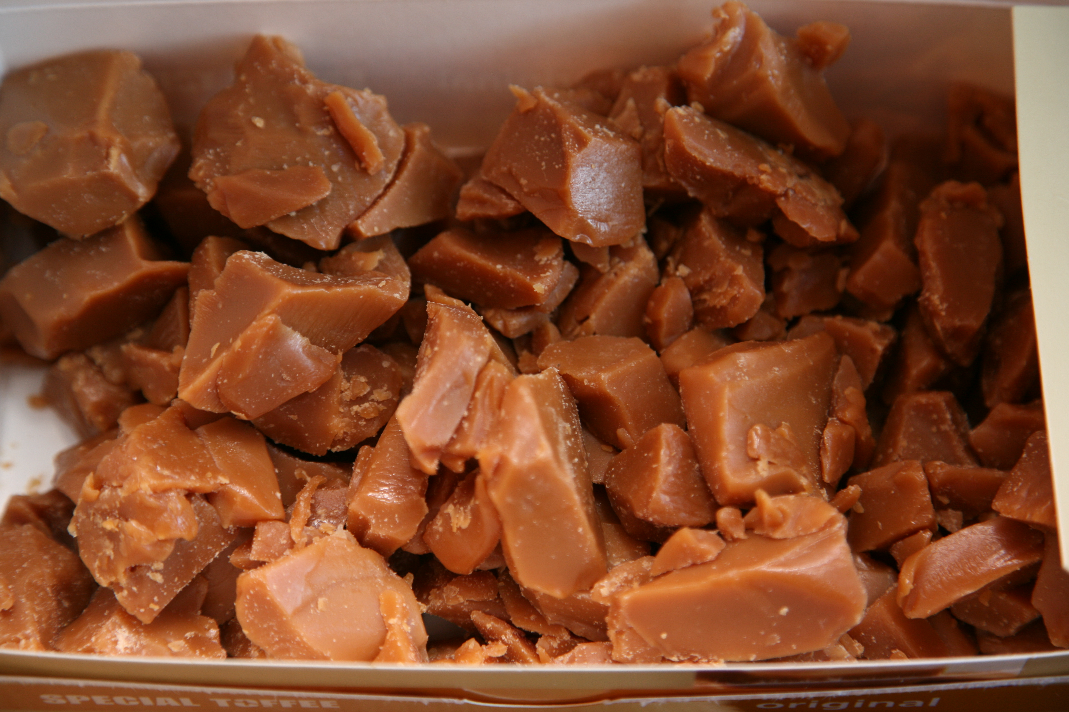 Thorntons Special Toffee. Photo taken by Stratford490.